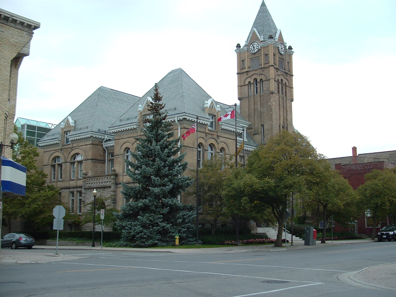 South West Corner, City Hall, St. Thomas, Ontario.